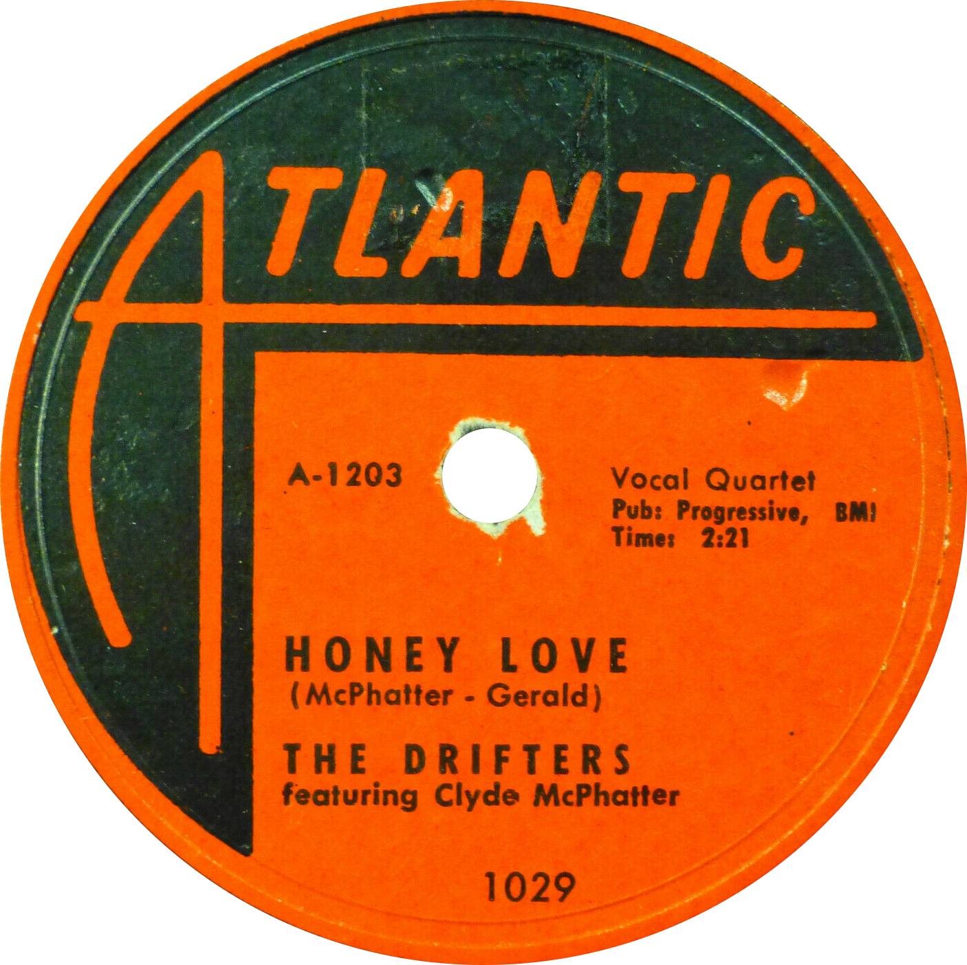 Side-A label of the US 10-inch (78 RPM) shellac vinyl single "Honey Love" by The Drifters